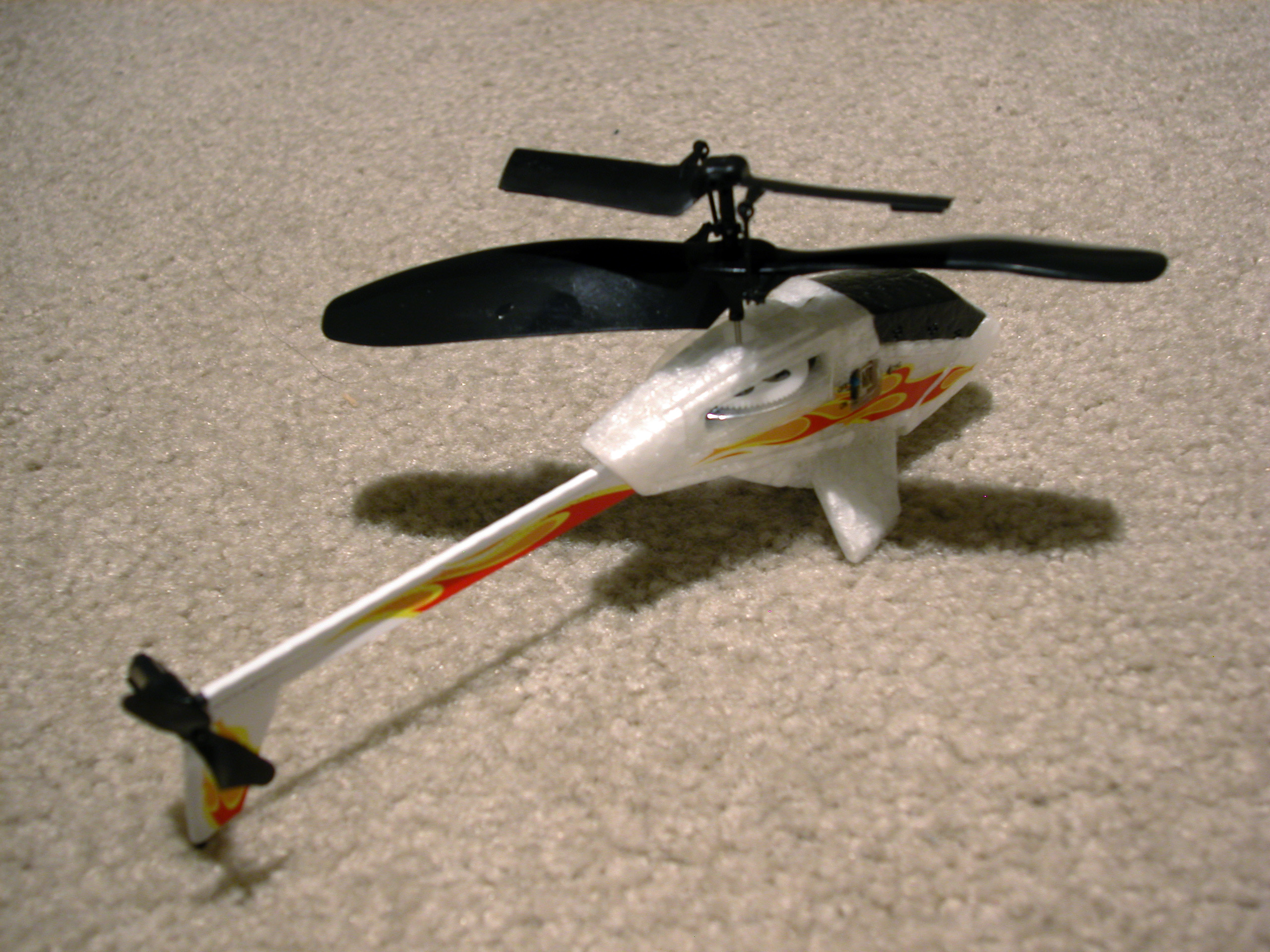 Rear view of the PicooZ remote controlled helicopter from Silverlit Toys. Camera used was a Nikon Coolpix 5000.